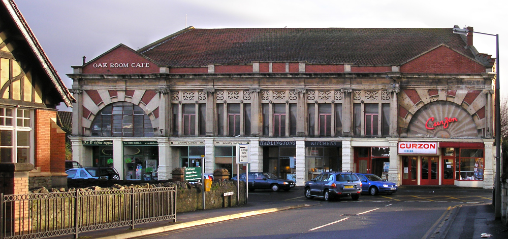 The Curzon Cinema in Clevedon. Some perspective correction has been applied.